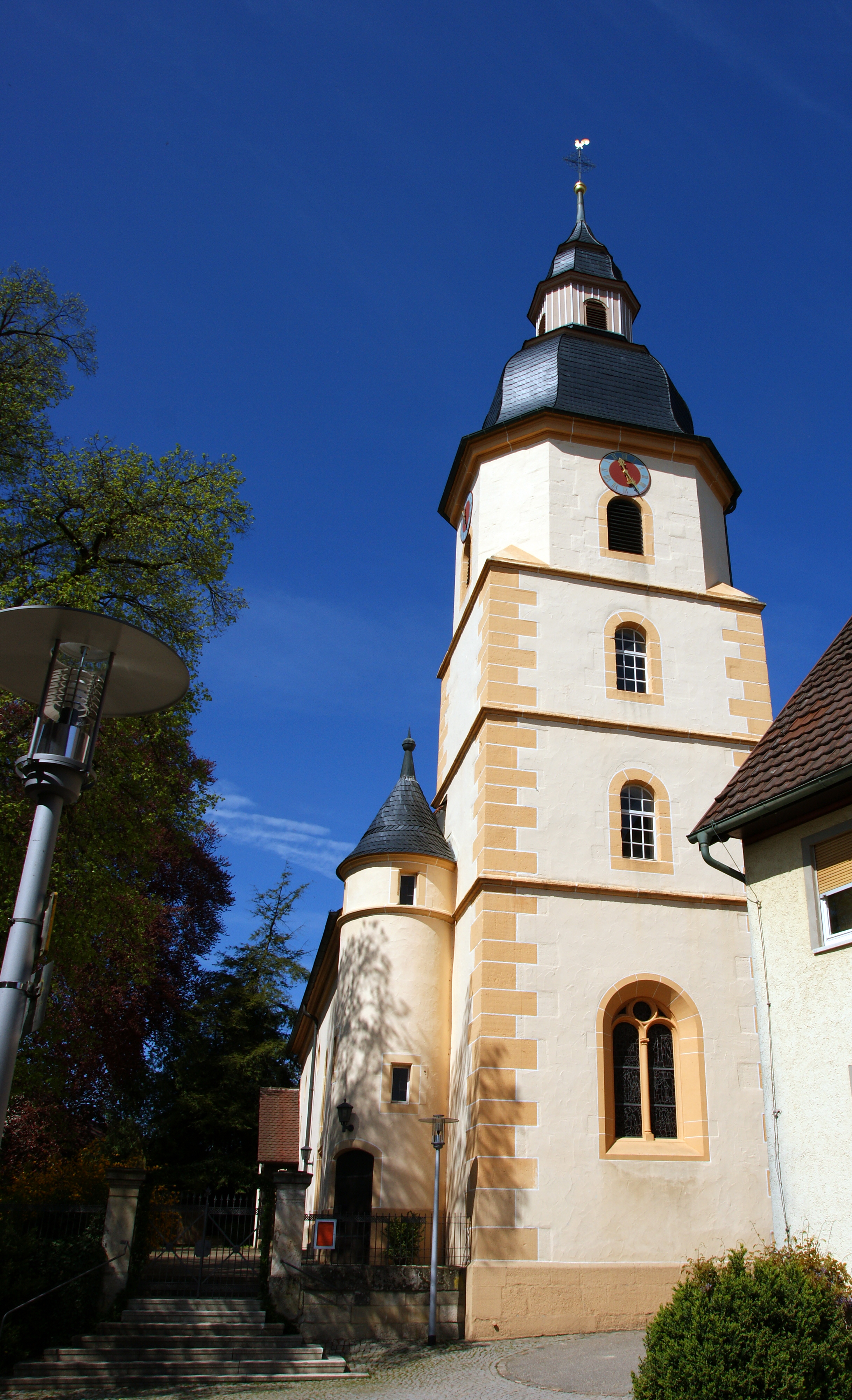 A very old church originating from 1202, and recently renovated between 1991-2000.